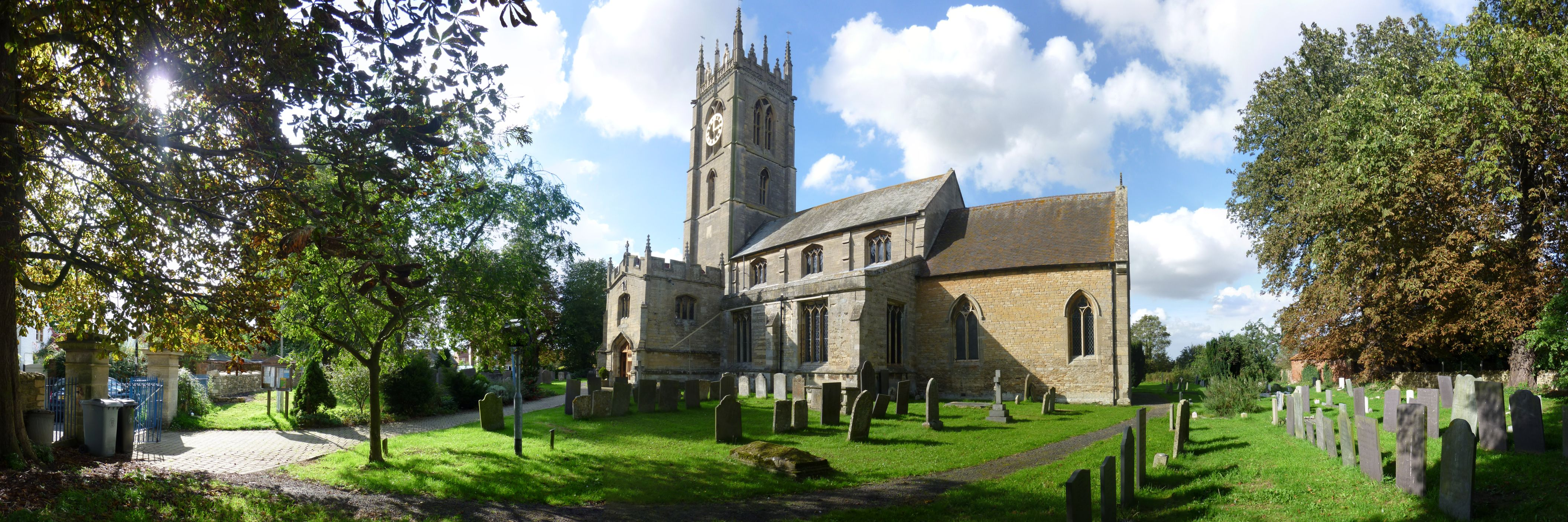 A panoramic composition of St Andrew's church in Folkingham, Kesteven, Lincolnshire